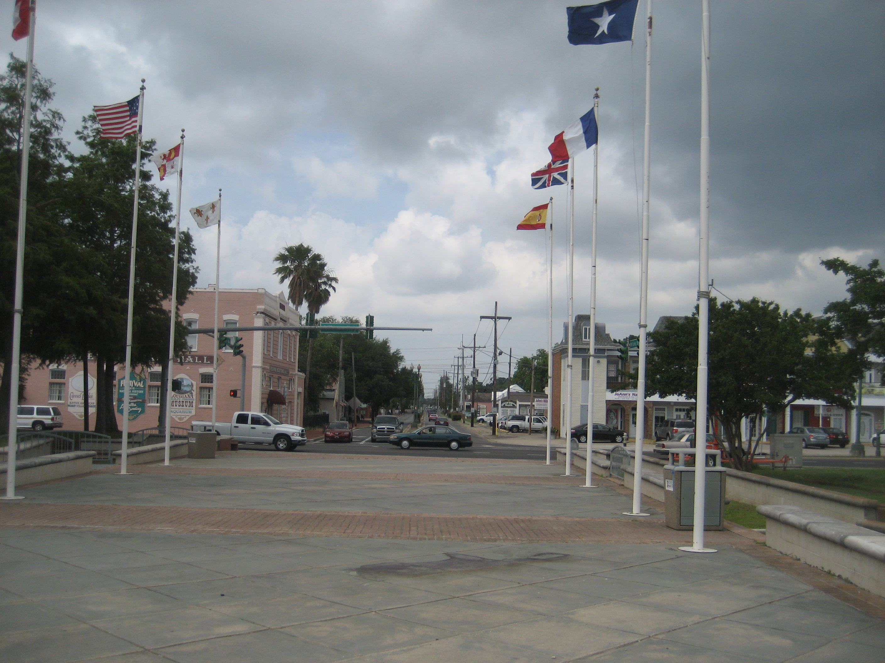 Rivertown, Kenner, Louisiana. Looking inland from near the levee to the end of Williams Boulevard.